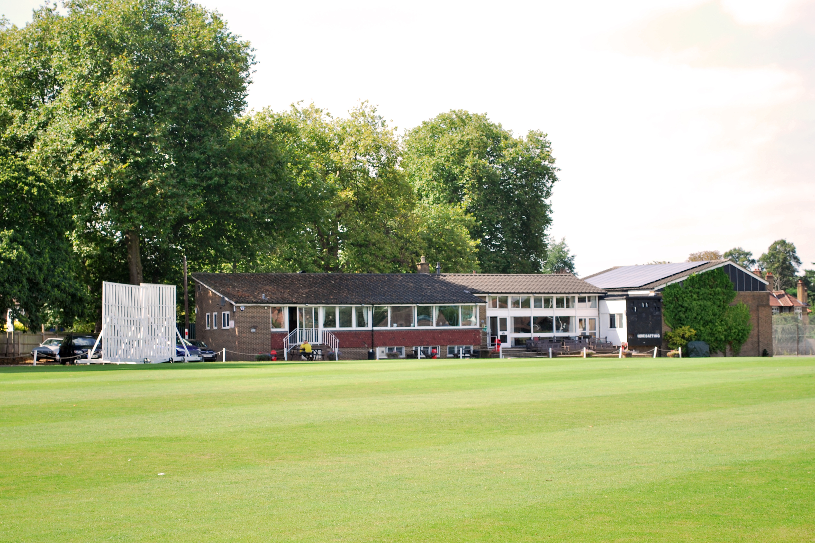 The cricket pavilion at Foxgrove Road in September 2016. The squash courts are on the right